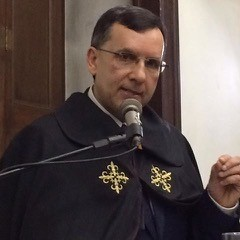 Prof. Dr. Jorge Trindade at the Brazilian Academy of Philosophy